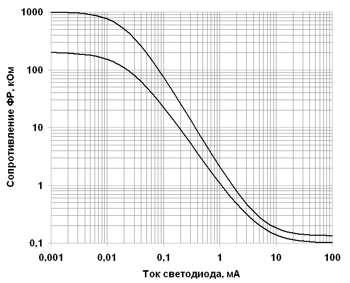 Идеализированная, упрощённая передаточная характеристика оптопары светодиод+фоторезистор. Мгновенное сопротивление фоторезистора лежит внутри полосы, ограниченной двумя линиями.